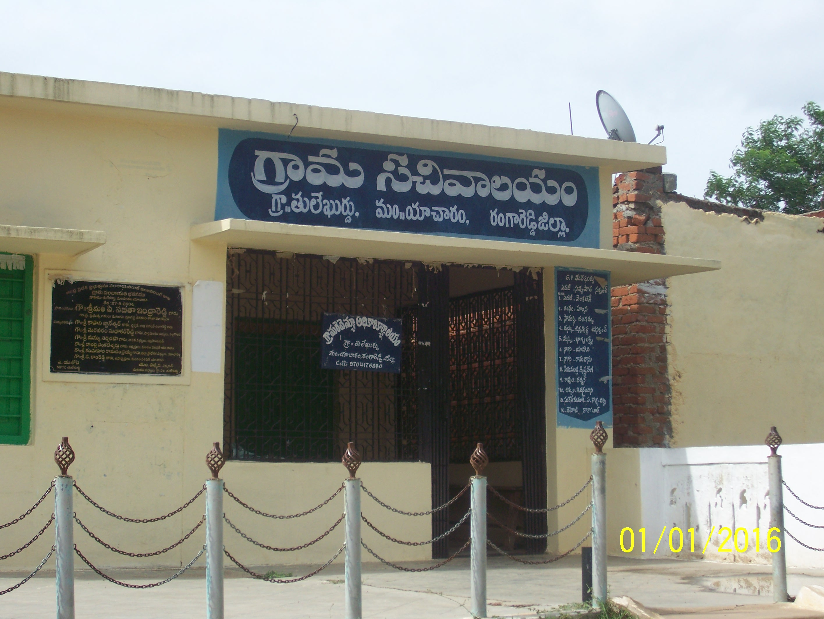 Graama sachivaalayam, yachaaram.